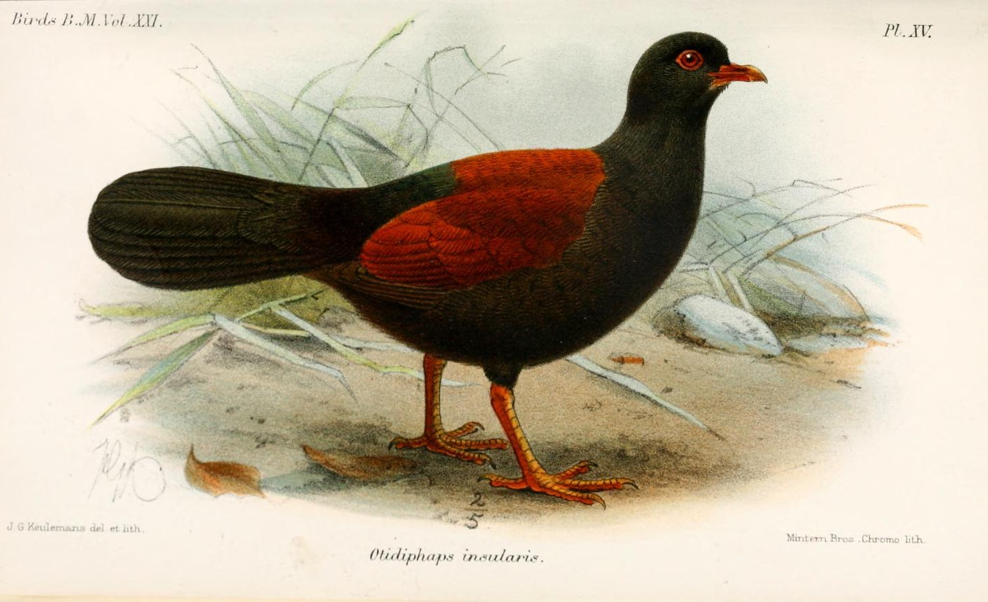 Otidiphaps insularis = Otidiphaps nobilis insularis, Pheasant Pigeon